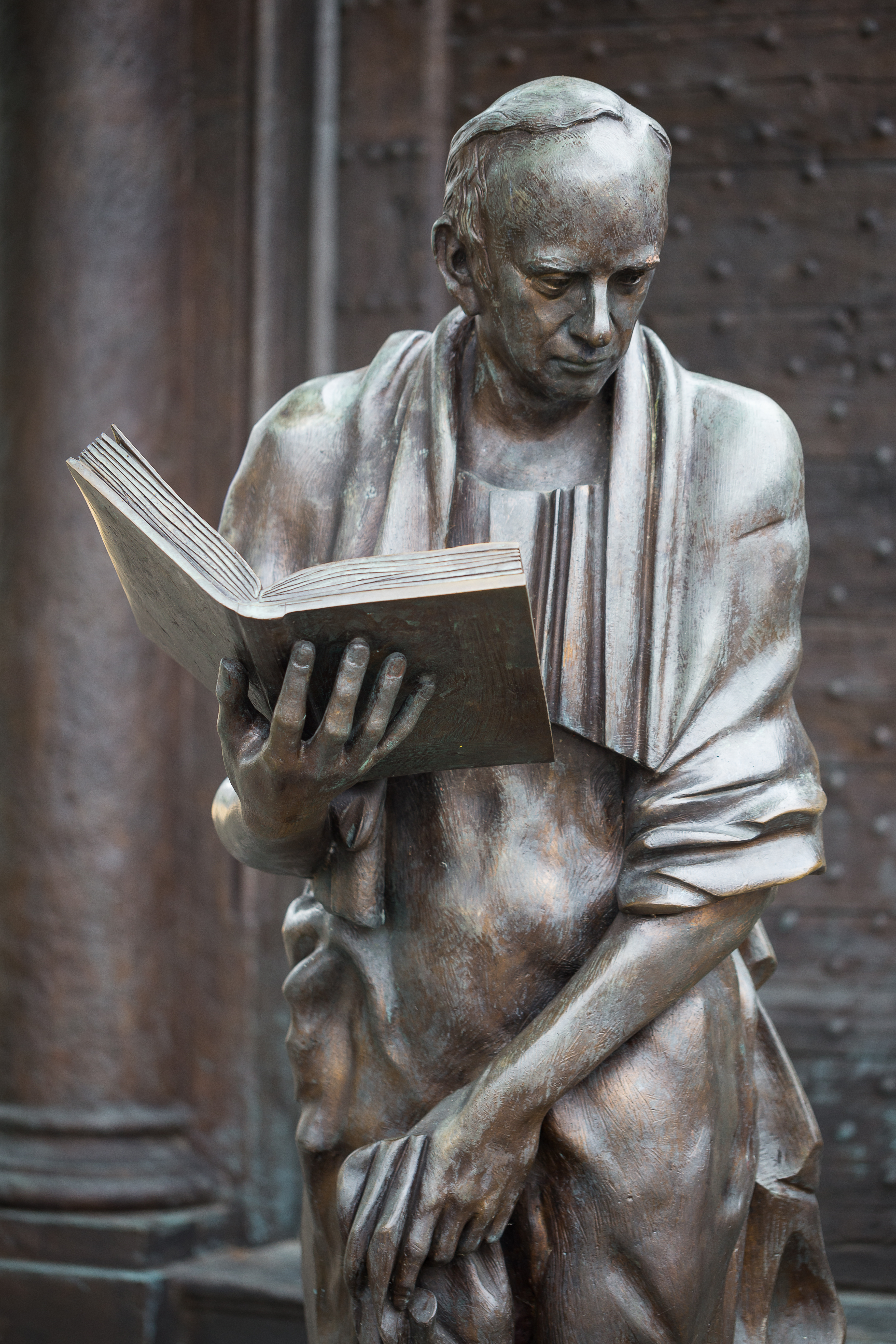 Sculpture "Goettinger Sieben" by Floriano Bodini (1933 - 2005) at Platz der Goettinger Sieben in Hanover, Germany.